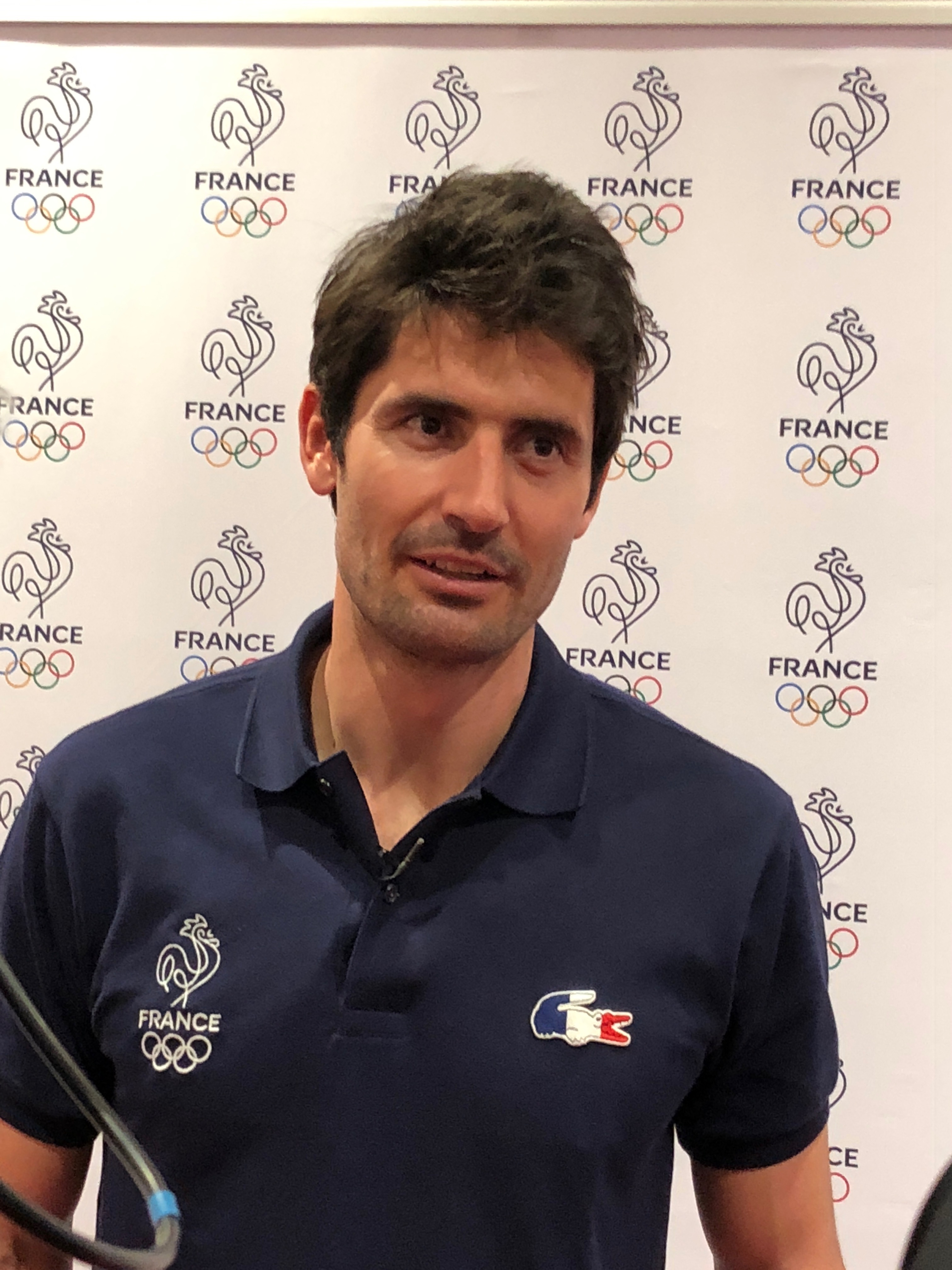 French skier Jean-Baptiste Grange in Paris, october 2017